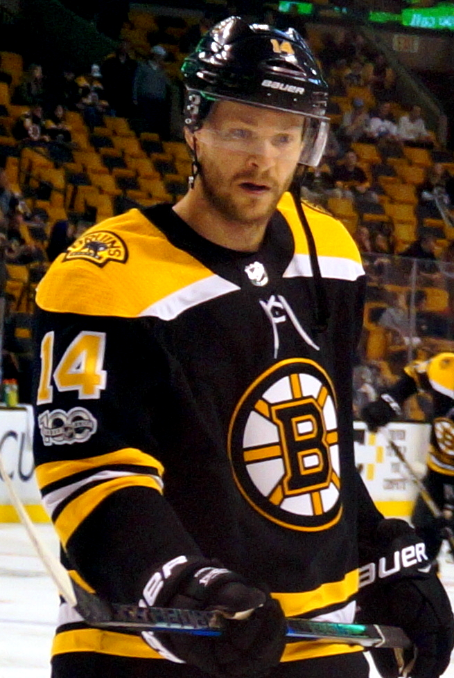 Paul Postma at Bruins warm-ups, October 2017